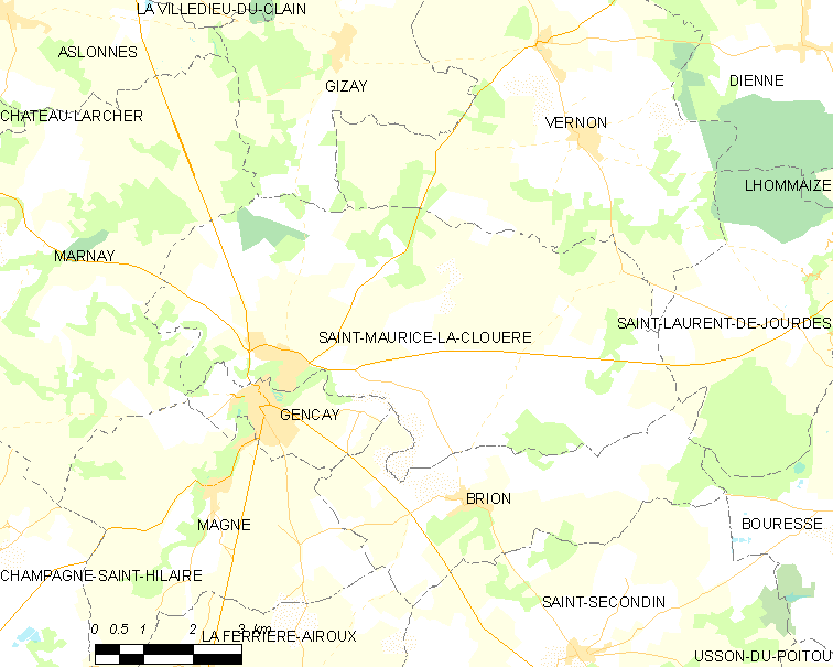 Map of French municipality Saint-Maurice-la-Clouère